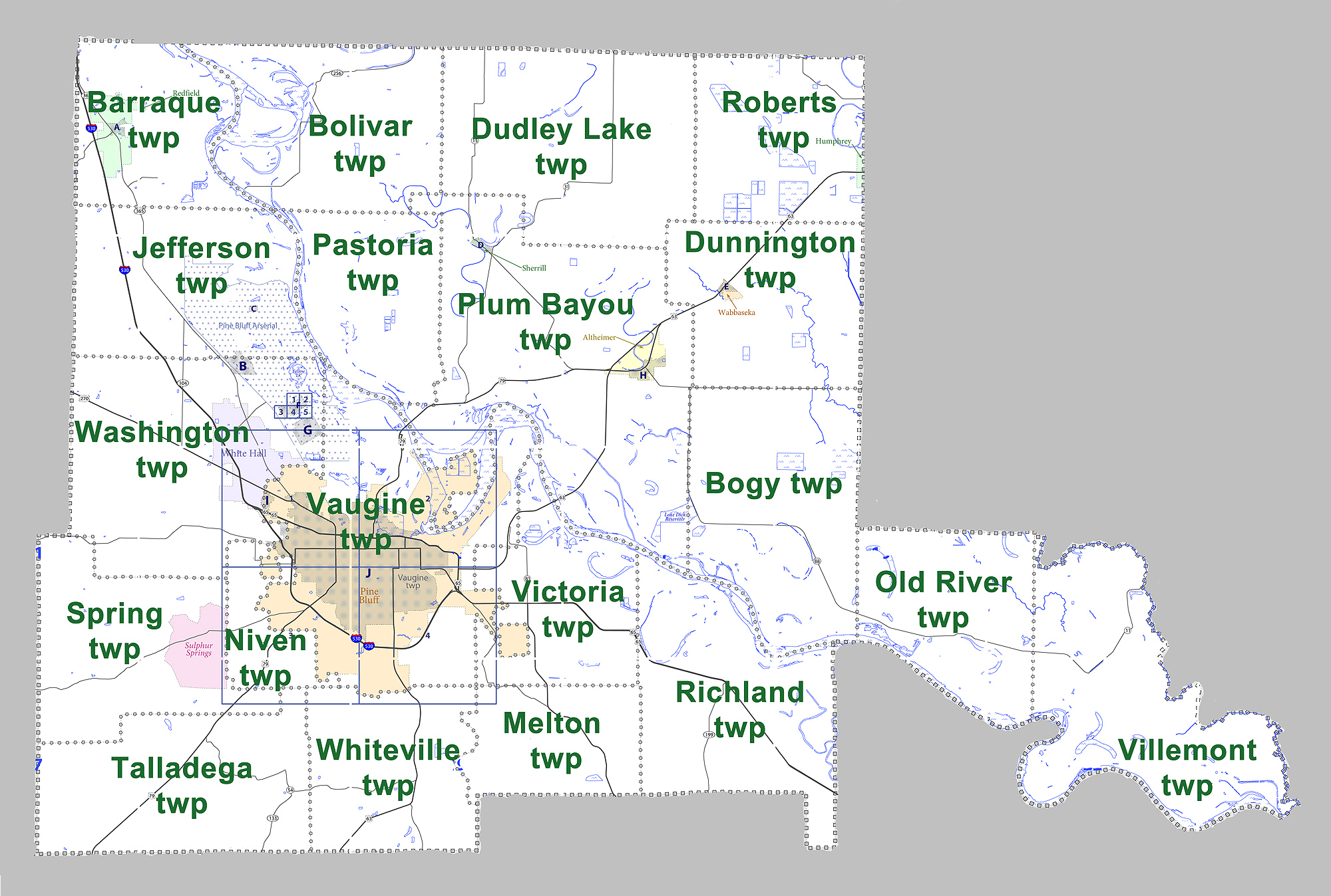 Large map showing townships in Jefferson County, Arkansas. Modified from US census map (for 2010 census) for Jefferson County, Arkansas